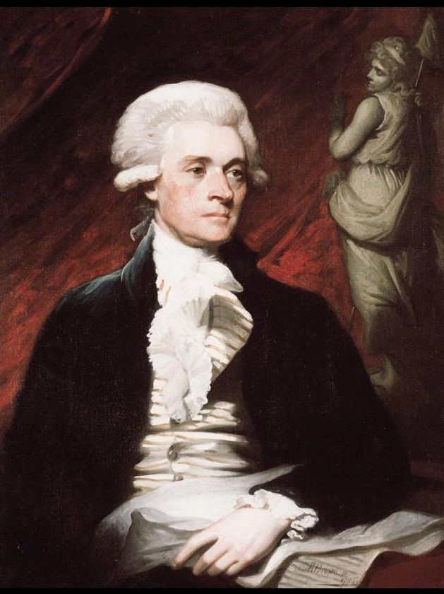 Portrait of the younger Thomas Jefferson painted while he was in London in 1786.